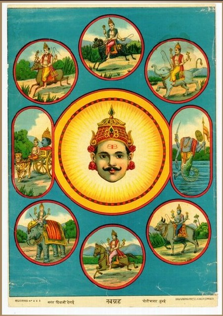 from baroda art gallery museum video screen shots